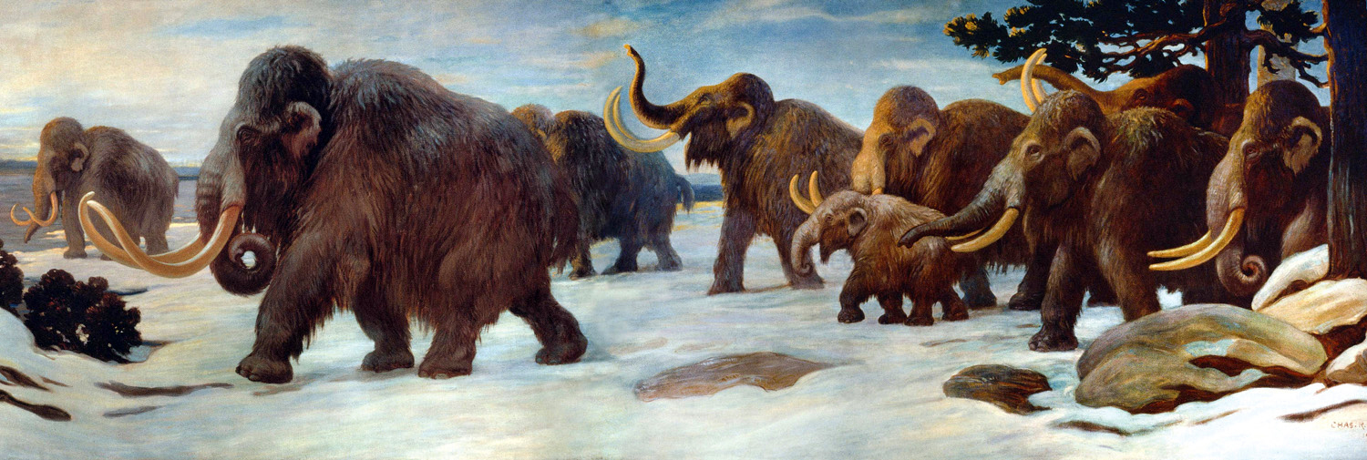 Wooly mammoths near the Somme River, AMNH mural.